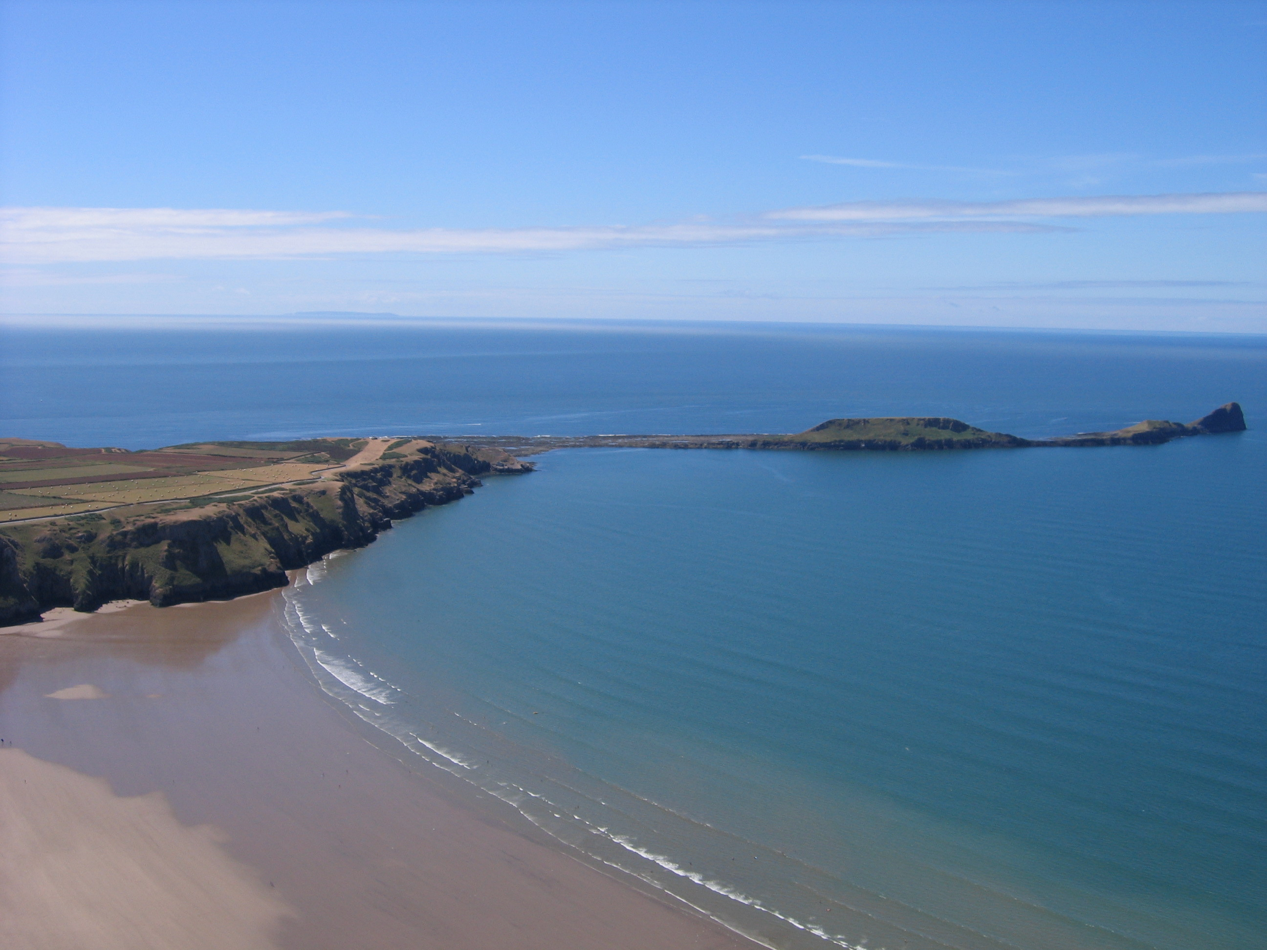 Worm's Head, Gower. Taken by me flying a paraglider over Rhossili Down